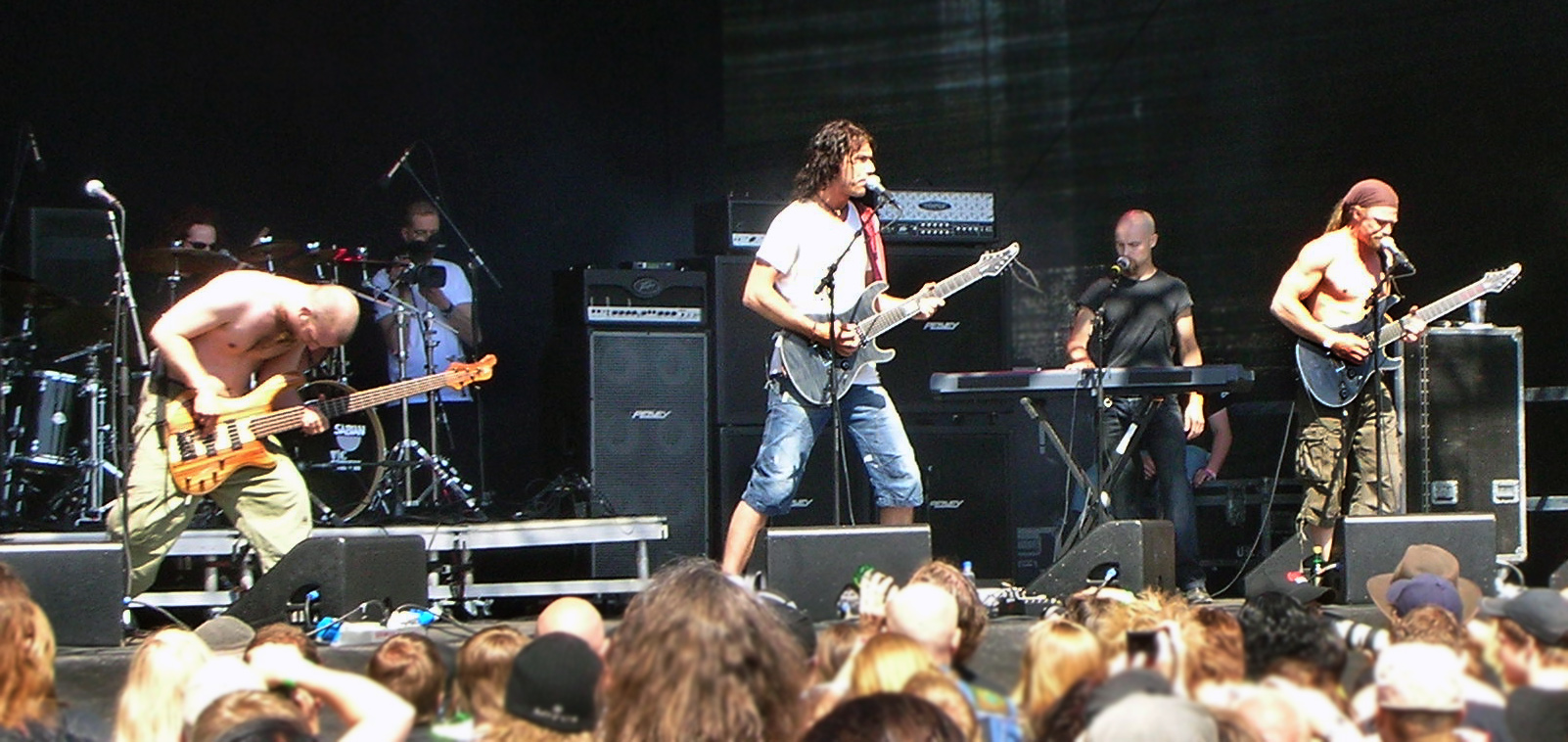 Swedish progressive metal band Pain of Salvation at the Sweden Rock Festival, 2008